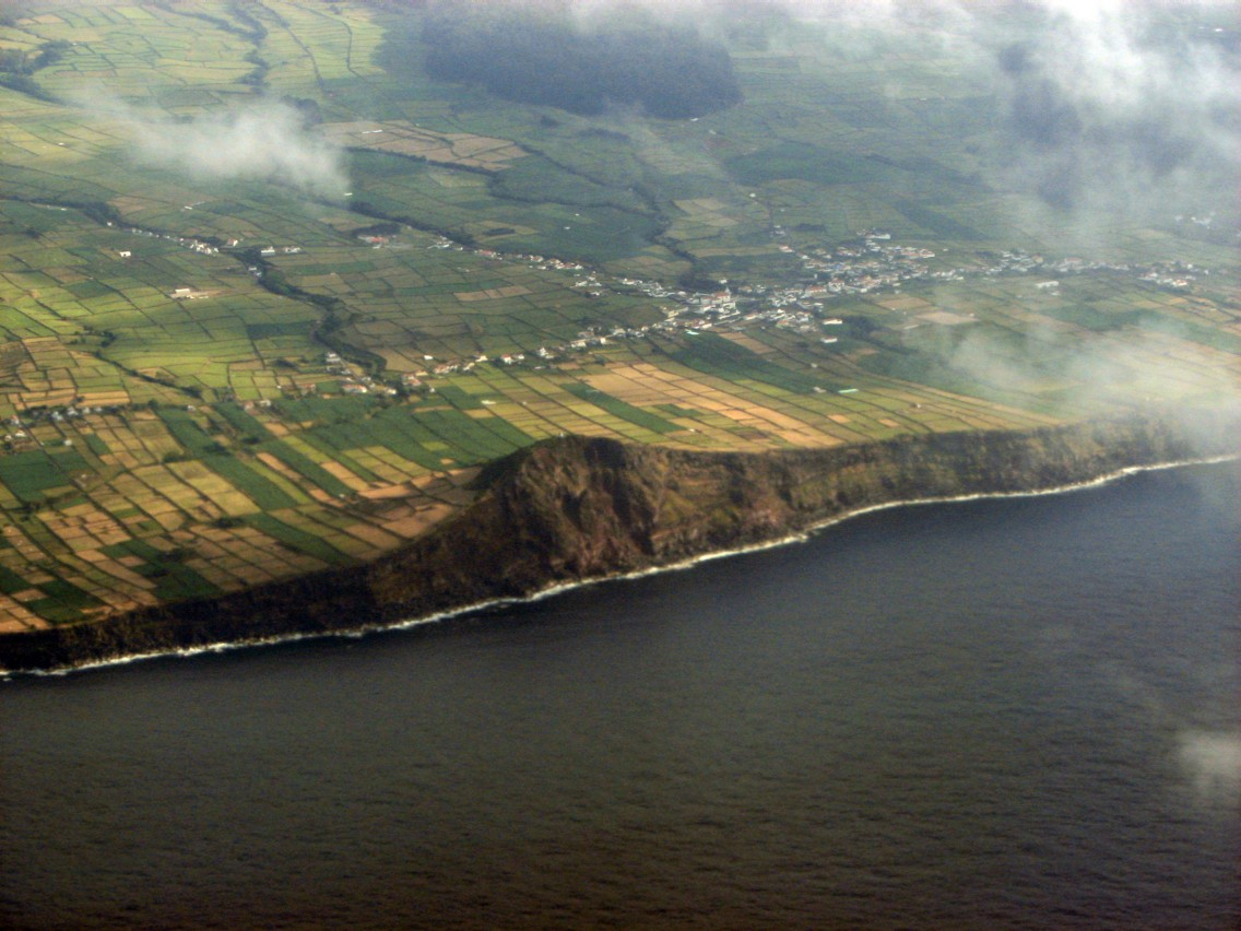 The village of Altares seen from a plane flying along the north shore of Terceira island. The high cliff in the center is Pico Matias Simão.